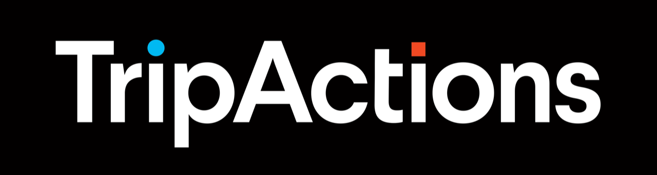 TripActions Logo